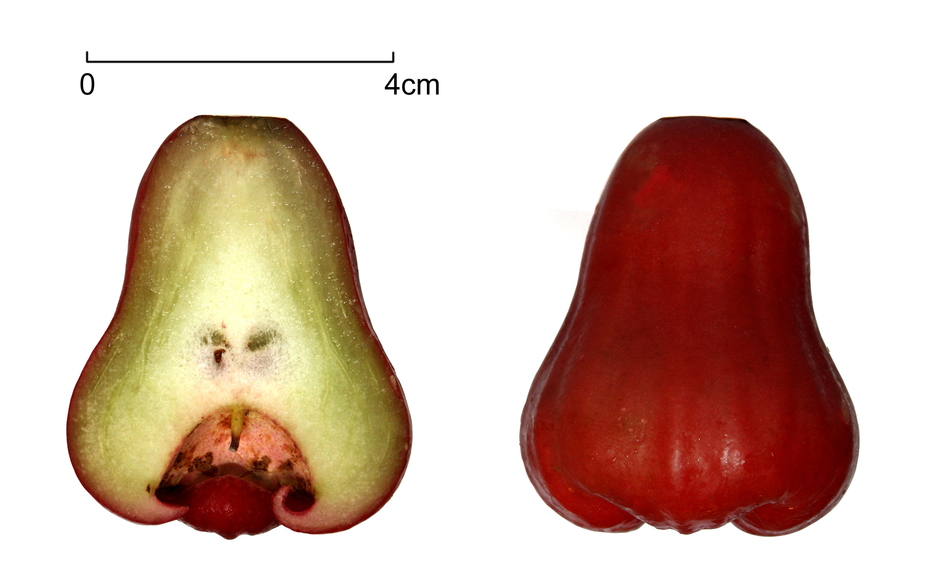 Syzygium samarangense, also known as wax apple or bell fruit.